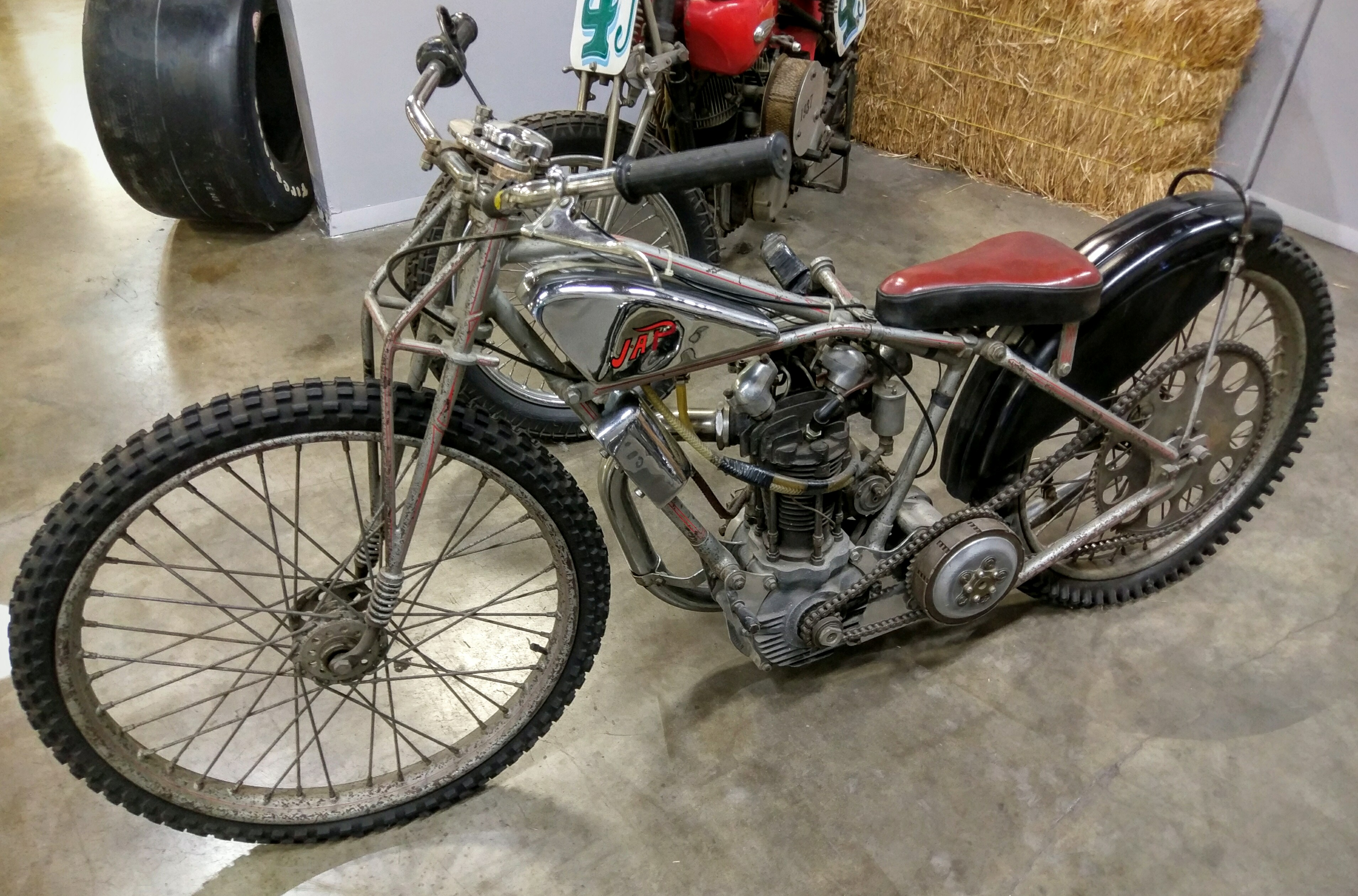 On display at the California Automobile Museum. Photo by Jim Heaphy.